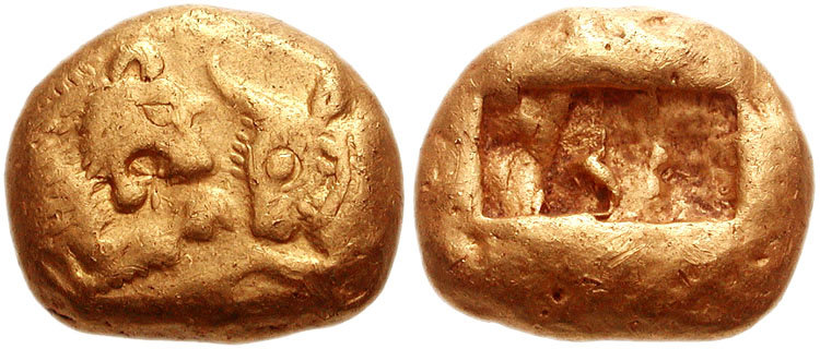 KINGS of LYDIA. Kroisos. Circa 561-546 BC. AV Stater (16mm, 10.73 g). Heavy series. Sardes mint